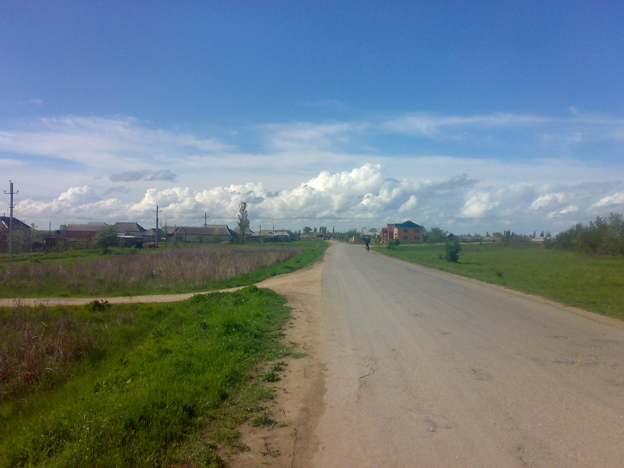 View the village Kandauraul